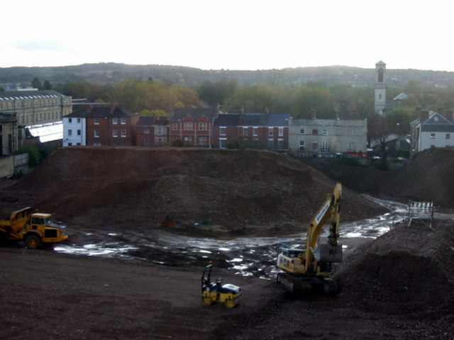 View from the observatory towards Walton Street Looking southwest from the Radcliffe Observatory across the now-cleared area behind the Radcliffe Infirmary, once covered by hospital extensions. On the right is the tower of St Barnabas and, far left, the University Press. The houses facing are along Walton Street, the trees beyond line the canal.